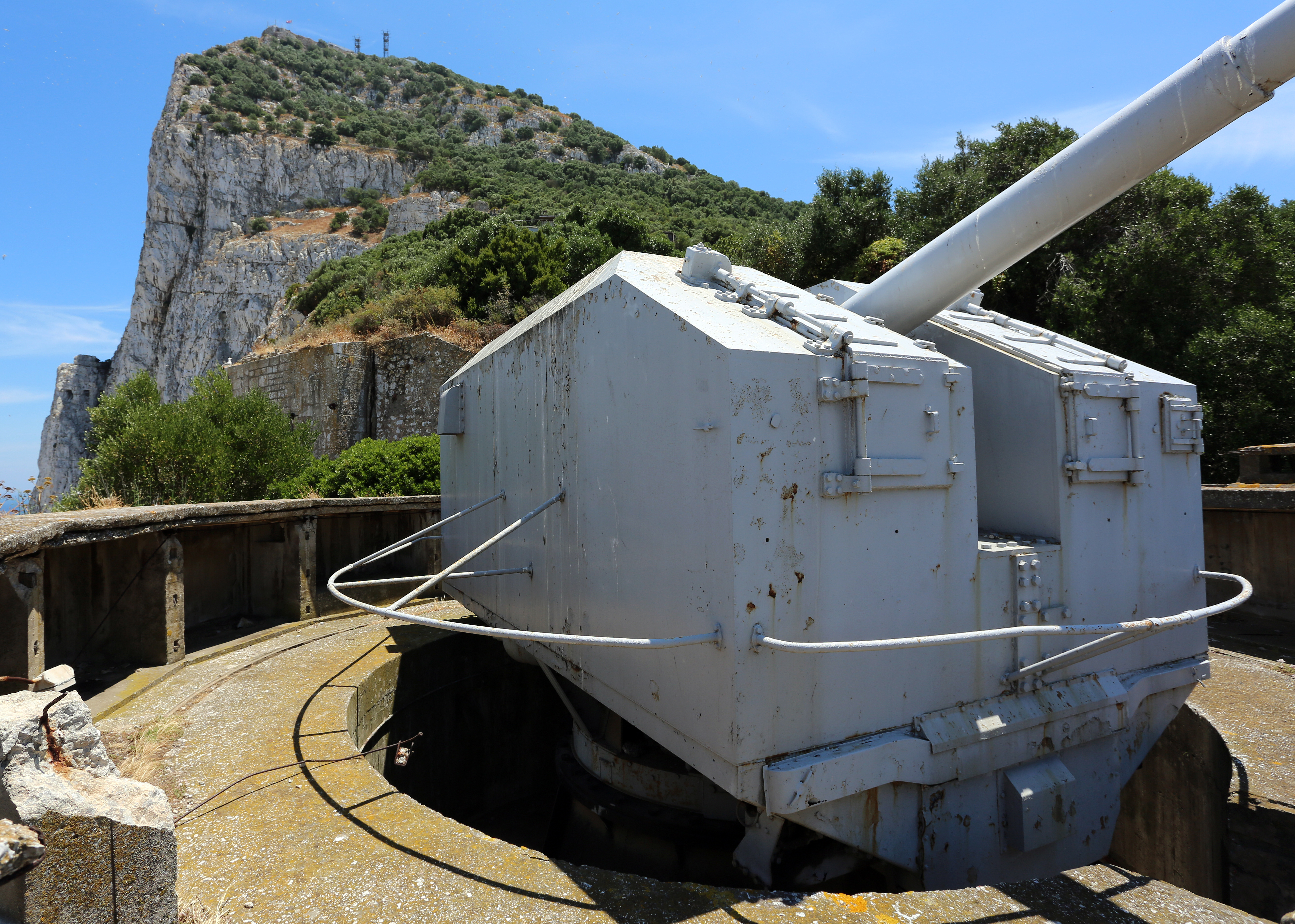 Princess Anne's Battery has the distinction of being the only complete battery of four 5.25 inch dual purpose Anti-Aircraft/Coastal Defence Guns in the world.